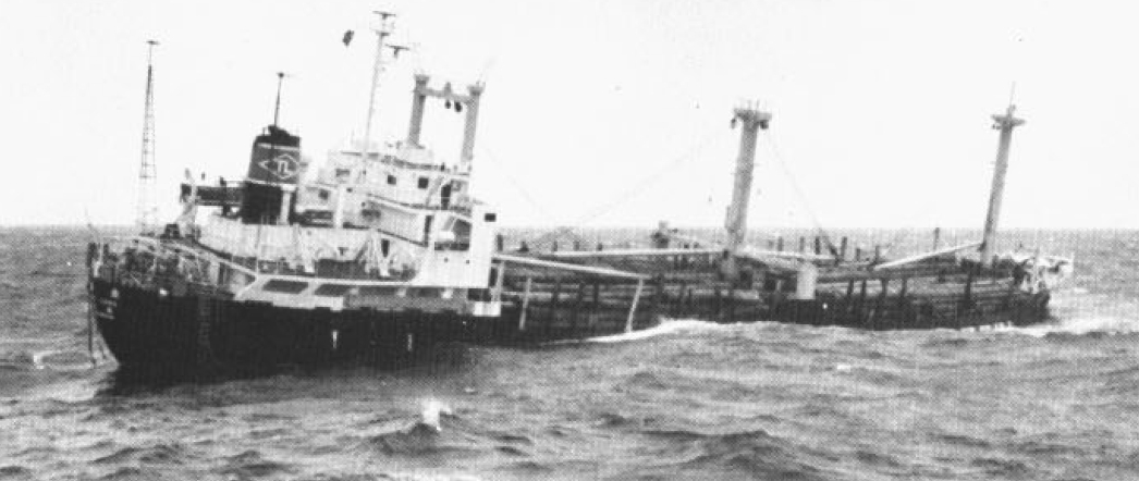 The Taiwanese merchant ship Dai Lung sinking in the South China Sea on 21 November 1983. The ship started taking on water in the No.1 cargo hold in rough seas of the Typhoon Orchid. The crew was unable to find the source of the leak and sent an SOS. The U.S. Navy frigate USS Kirk (FF-1087) was nearby and rescued 23 of 25 crewmembers. Two crewmembers had died before.